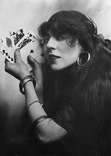 Florence Lee (1858 – 1962), an American actress of the silent era